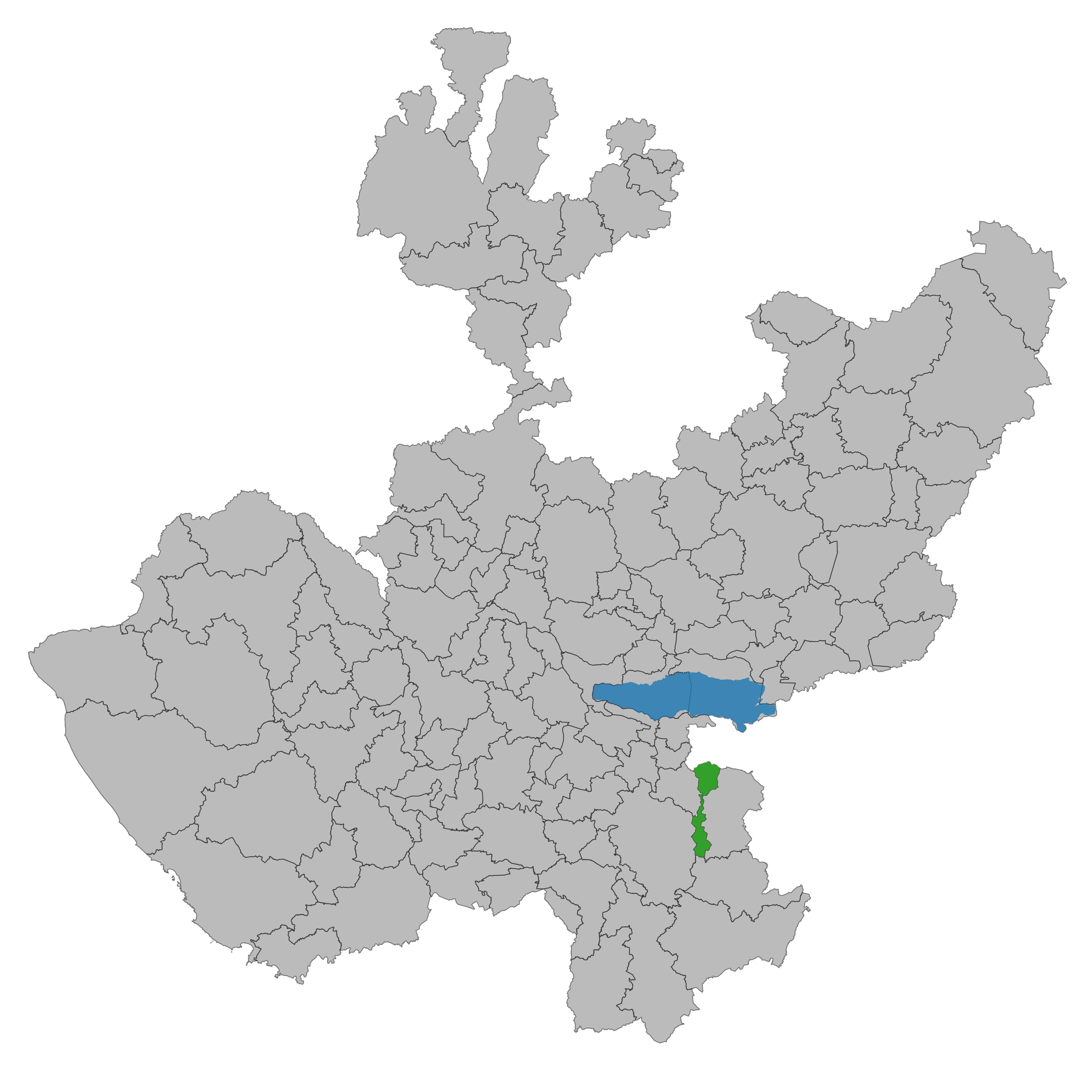 Municipality of Jalisco. Prepared with the software QGIS version 2.8.2 Wien & with information of SCINCE 2010 version 05/2013